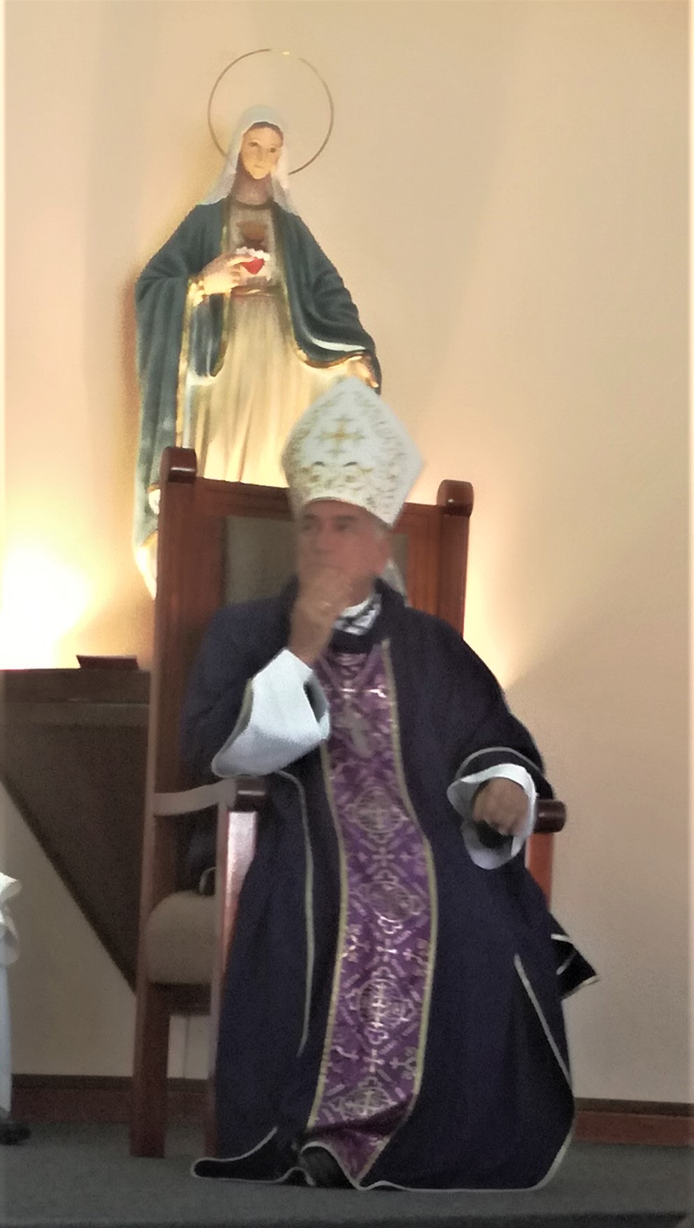 Nicola Girasoli, Apostolic nuncio to Peru, mass for CAPU 40th Anniversary.